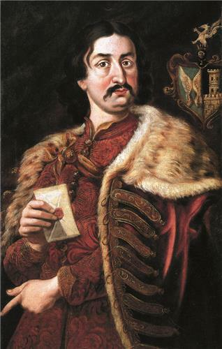 Portrait of Petar Zrinski, 17th cen. nobleman and conspirator, ban